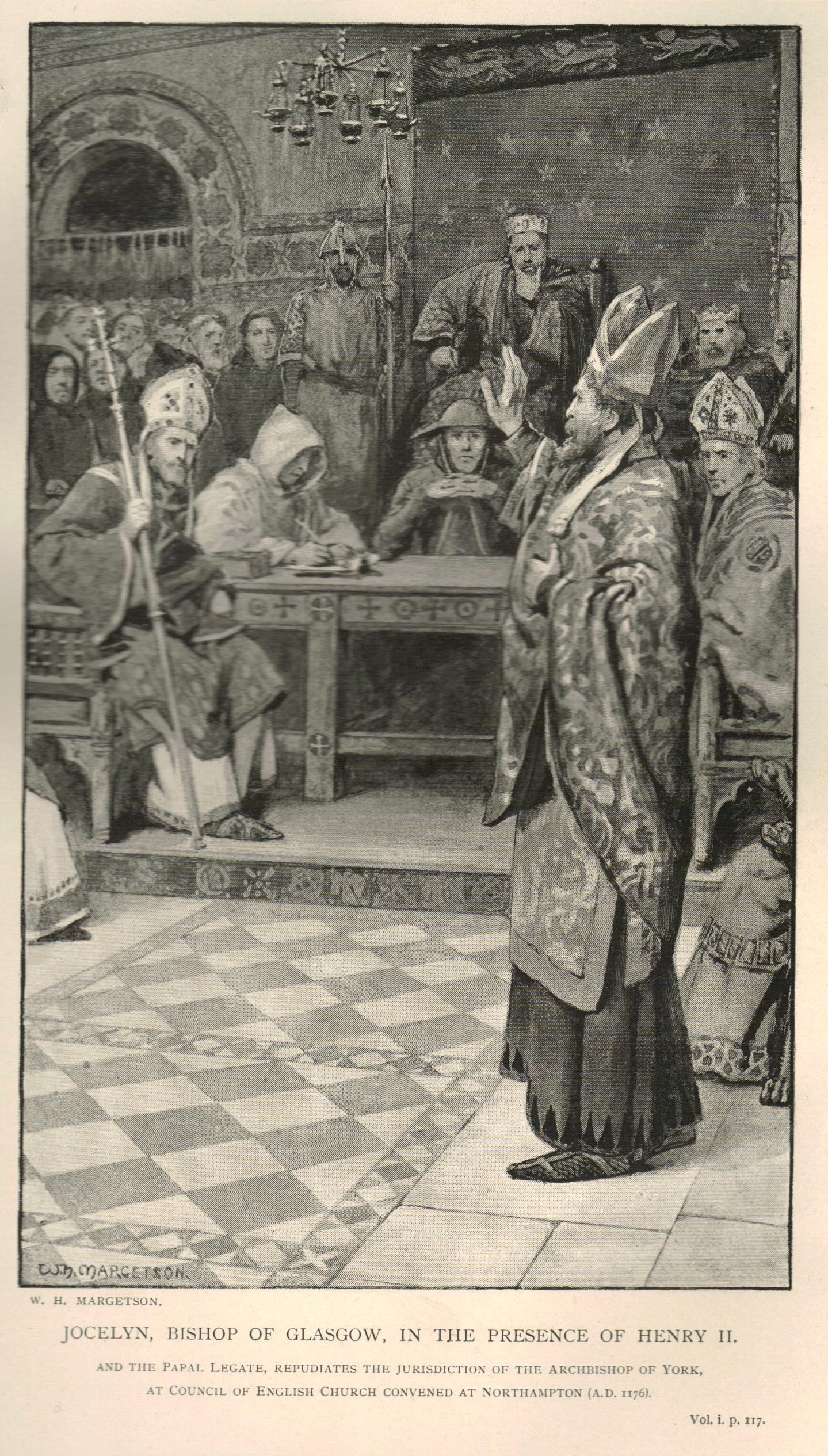 "Jocelyn, Bishop of Glasgow, In the Presence of Henry II"